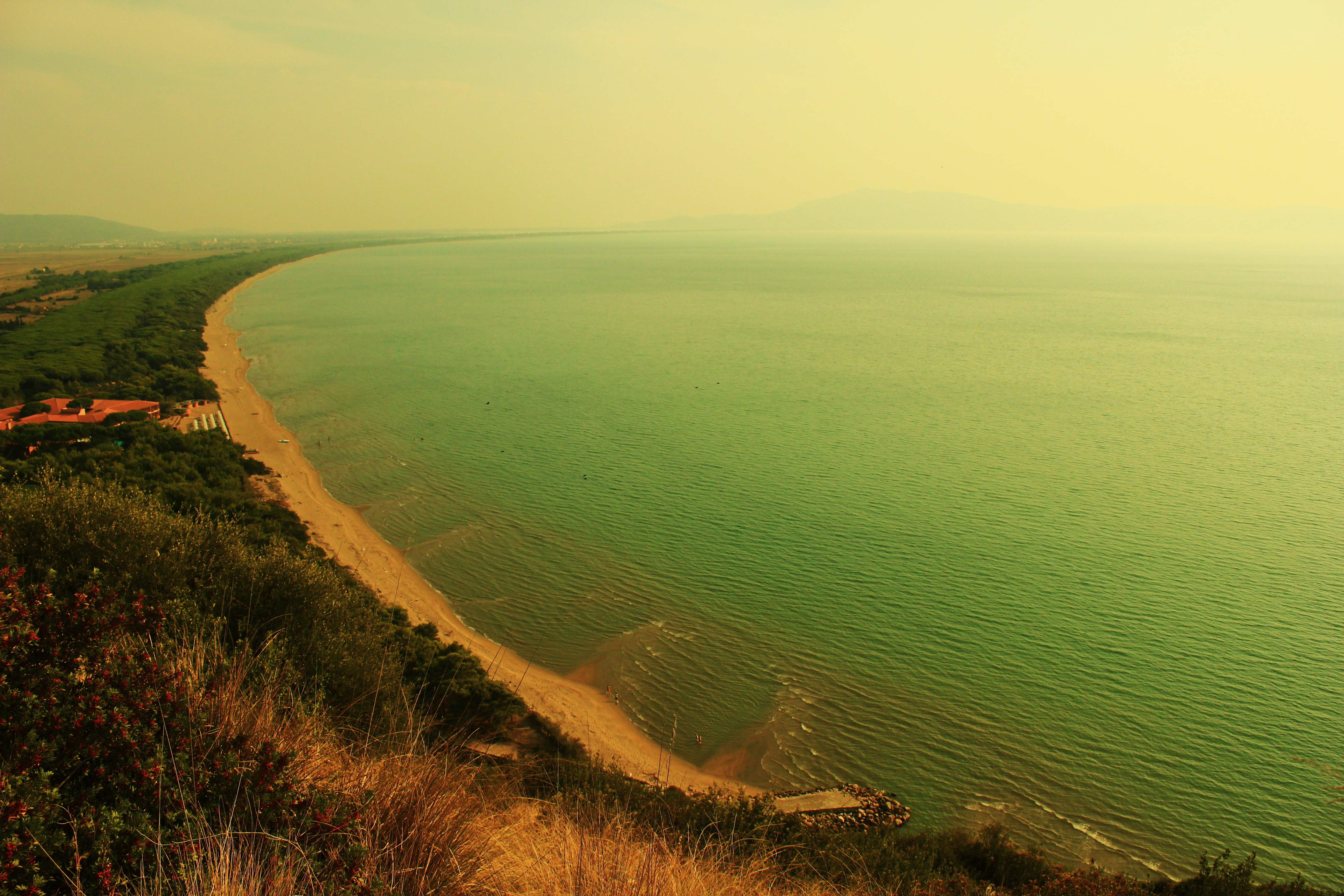 View of Osa Beach in Orbetello, Grosseto.